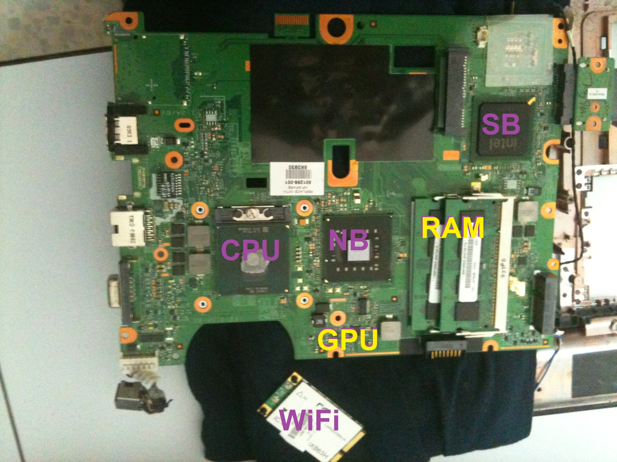 A part of an HP CP60 laptop motherboard. CPU=Centeral Processing Unit. NB=Northbridge. GPU=Graphical Processing Unit. SB=Southbridge.